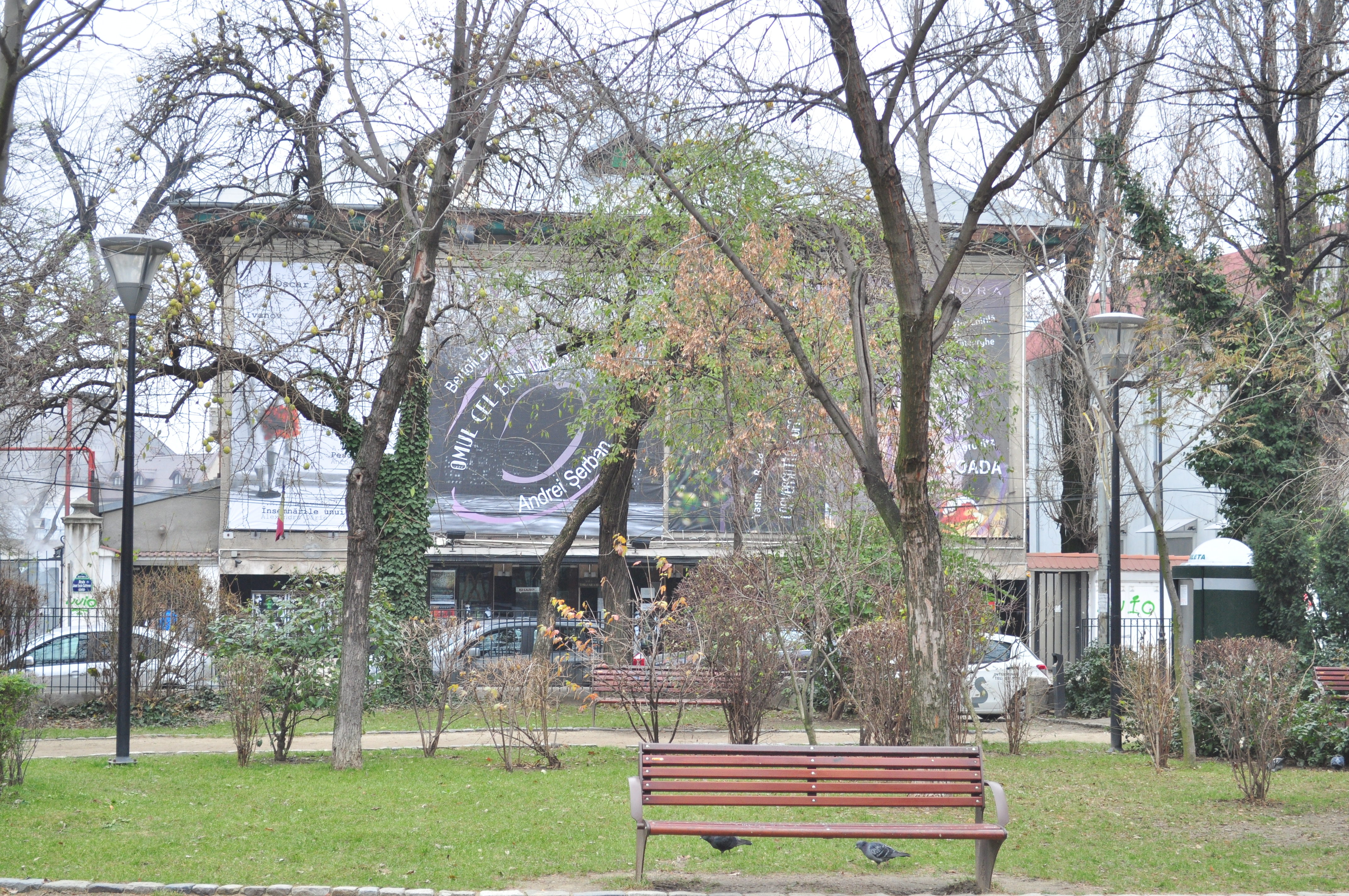 Sala Toma Caragiu, studio theater (second stage) of Teatrul Bulandra, Bucharest, Romania, seen from Grădina Icoanei.